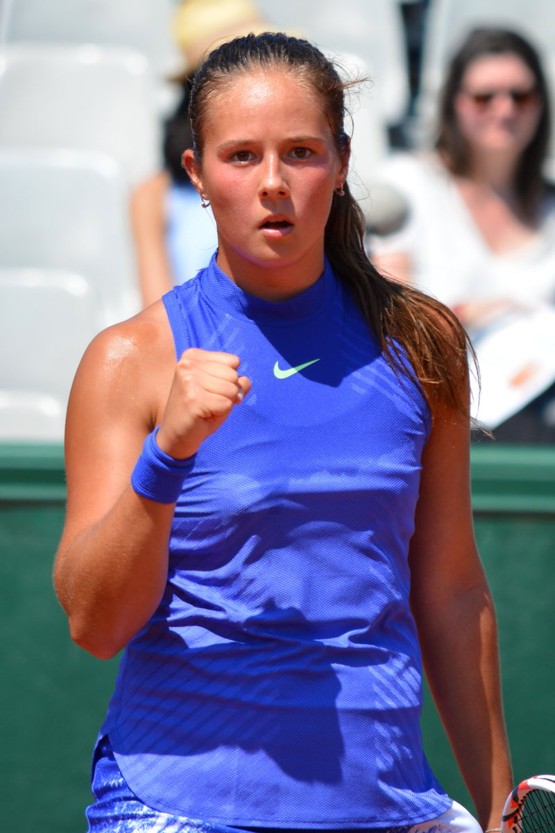 Daria Kasatkina playing Roland Garros 2017